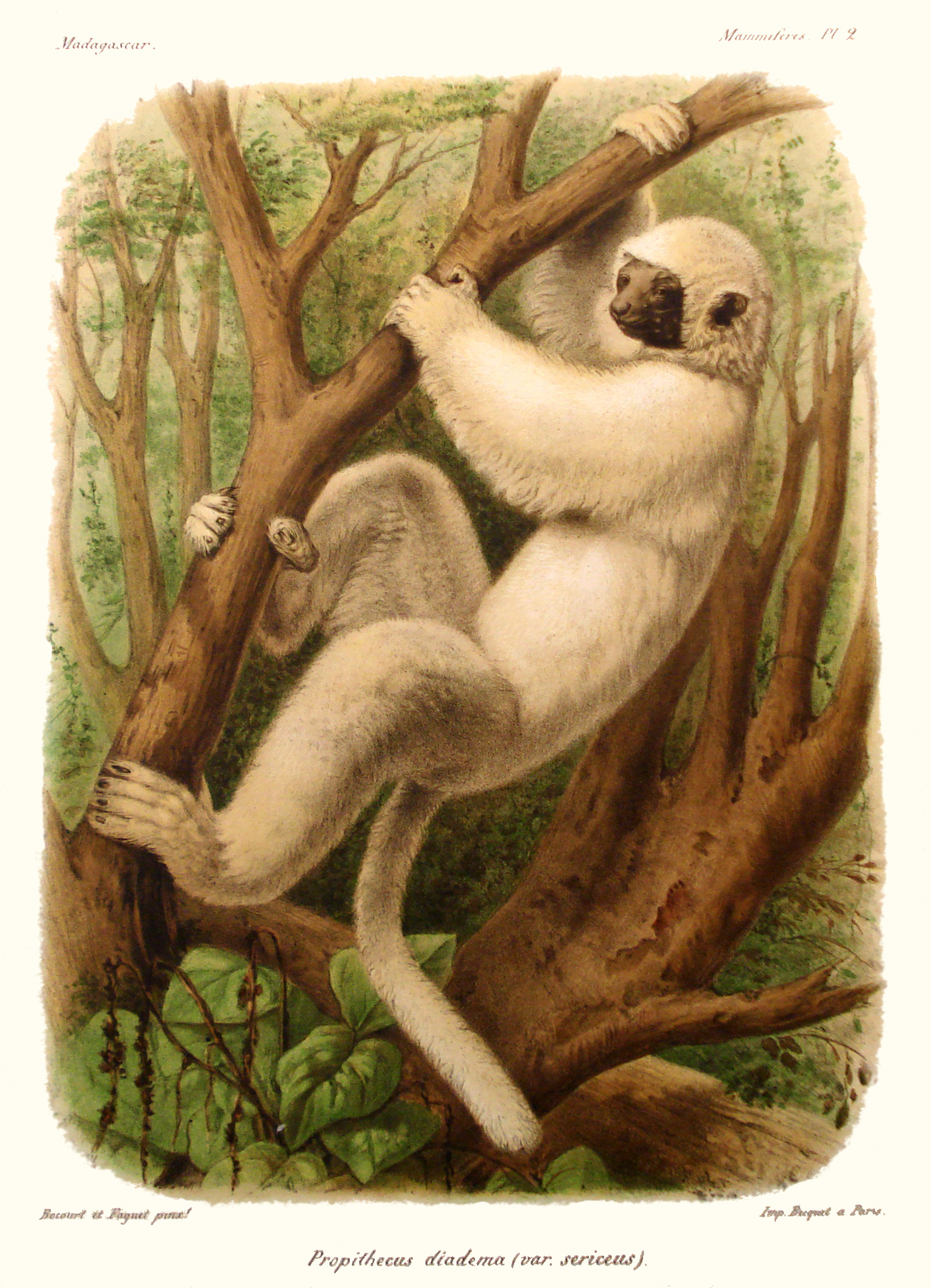 Silky Sifaka (Propithecus candidus) Original caption: Propithecus diadema, var sericeus (A. Milne Edwards et A. Grandidier), découvert par M. Guinet aux environs de Sambava (côte N.E. de Madagascar), au quart de la grandeur naturelle. Les taches blanches qui sont marquées sur le museau varient en nombre et en grandeur suivant les individus. English Translation (partial): Propithecus diadema, sericeus variety (A. Milne Edwards and A. Grandidier), discovered by Mr. Guinet around Sambava (NE coast of Madagascar)... The white spots which are marked on the muzzle vary in a number and size according to the individual.